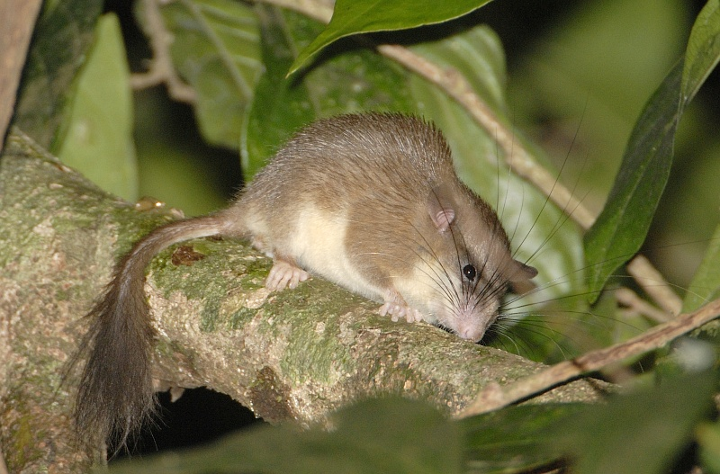 This is the Malabar spiny dormouse (Platacanthomys lasiurus) photographed in Chalakudi reserve forest